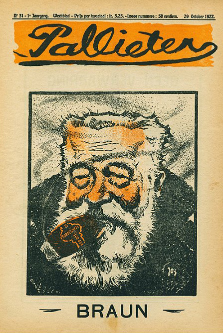 Emile Braun. Front page of the Flemish magazine Pallieter (1922-1928). All front pages were designed and illustrated by Jos De Swerts (1890-1939).